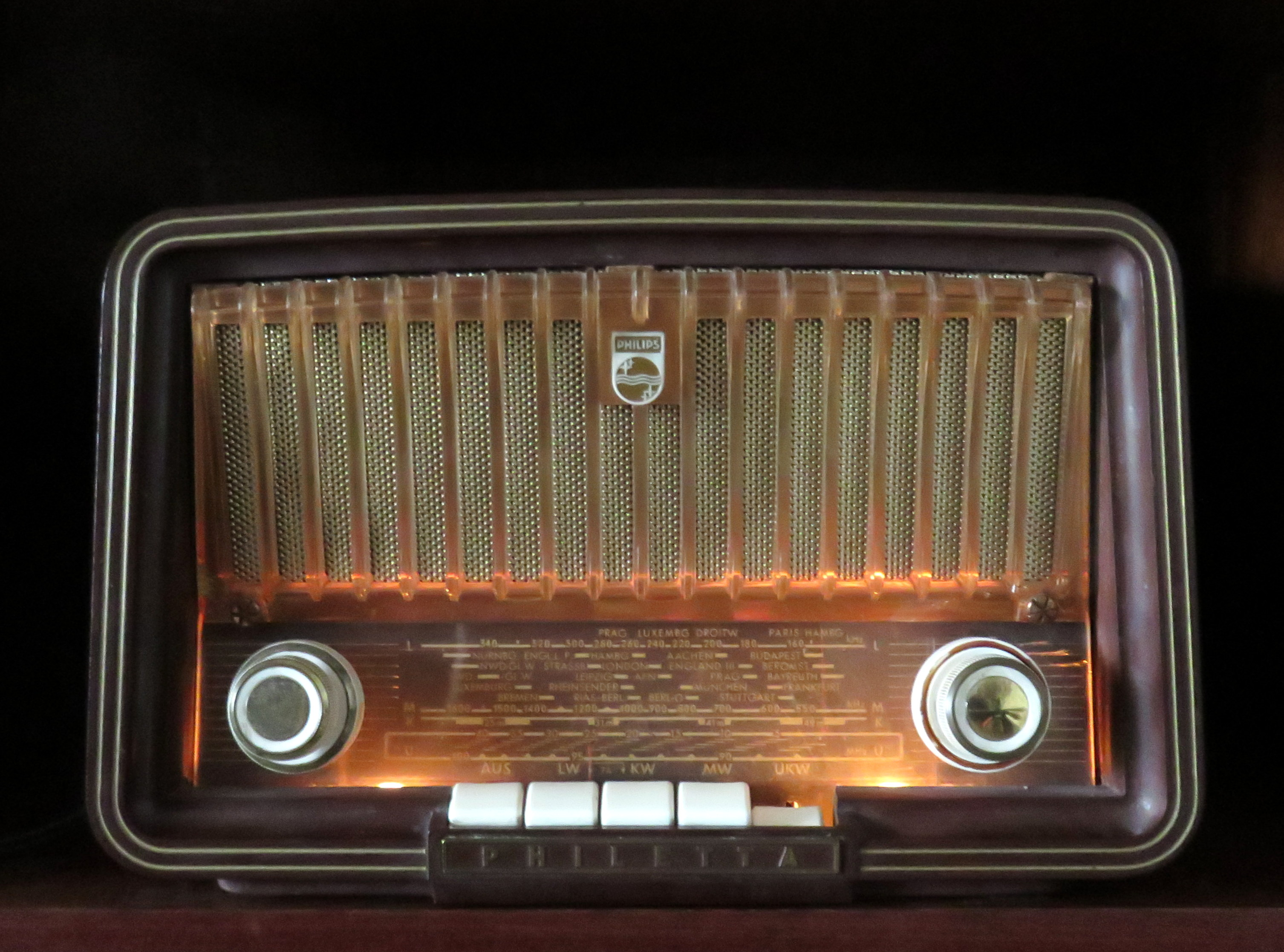 Radio Philetta BD 254 U, made in Germany by Deutsche Philips-Gesellschaft in 1955.